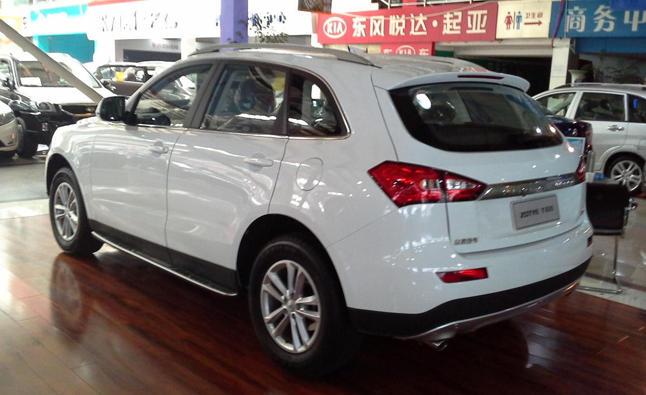 Zotye T600 photographed in Chengdu, Sichuan province, China.